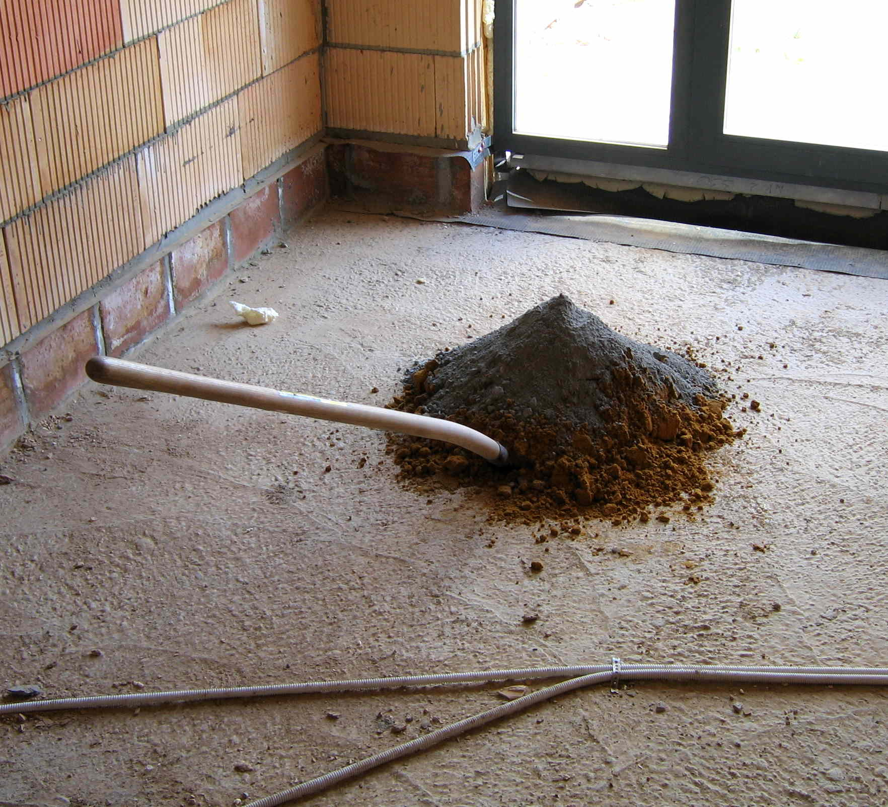 A to be mixed and watered to become (still fluid and applyable) concrete.